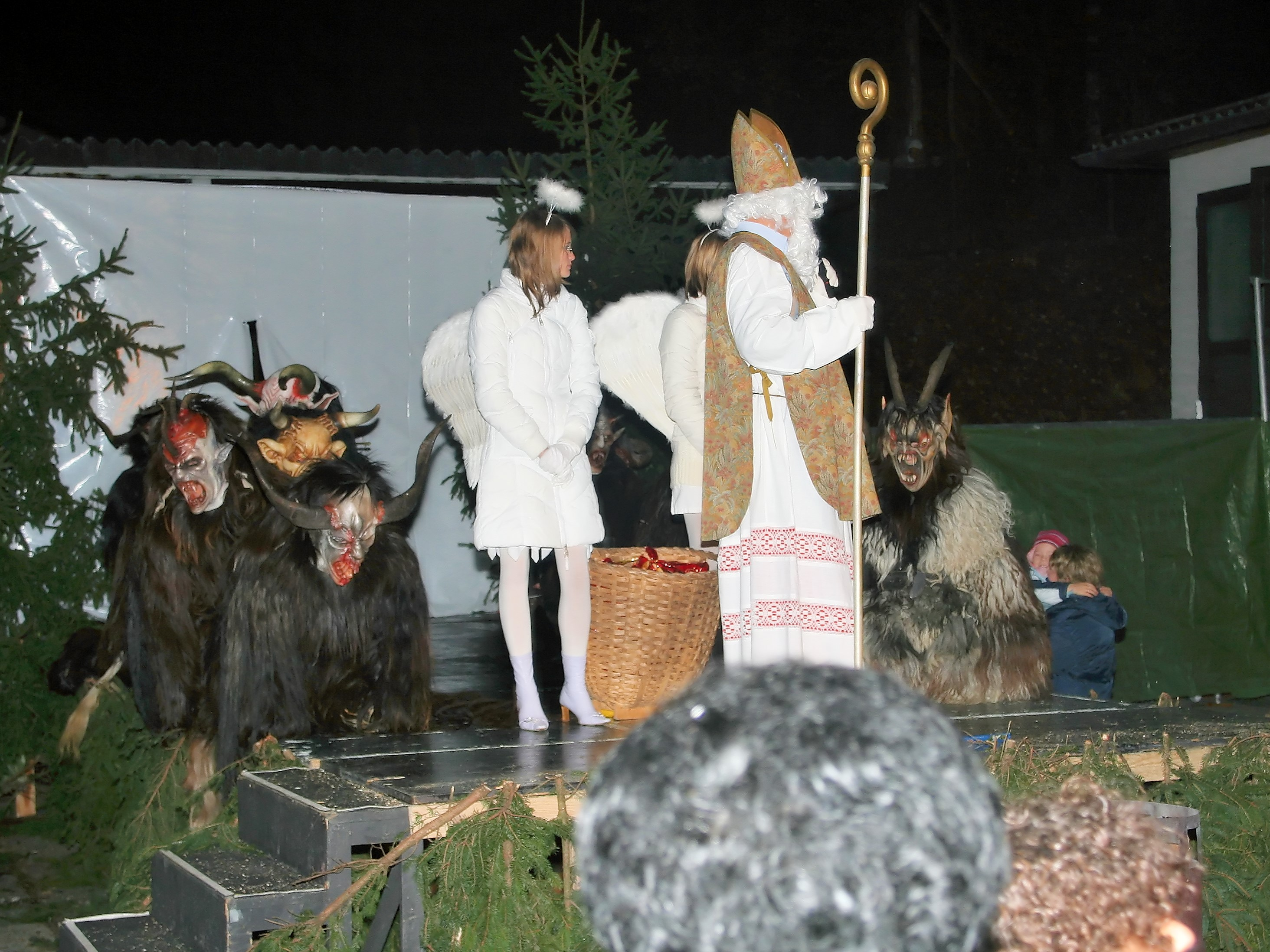 Saint Nicholas with several krampusses and angels (Morzger Pass in Salzburg, Austria)